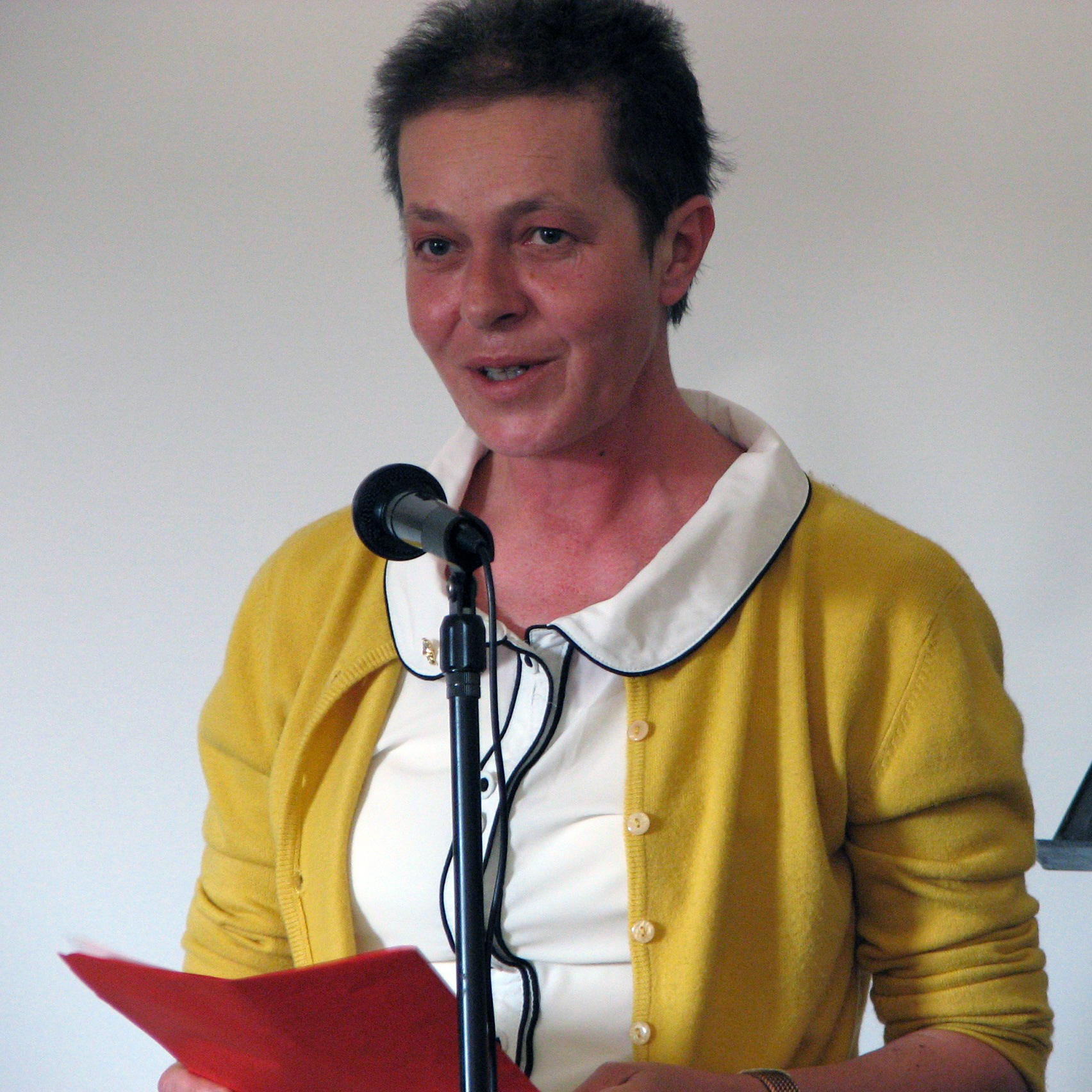 Tatjana Lukić reading at Poetry Without Borders, 2 September 2007, photograph by David Cahill.